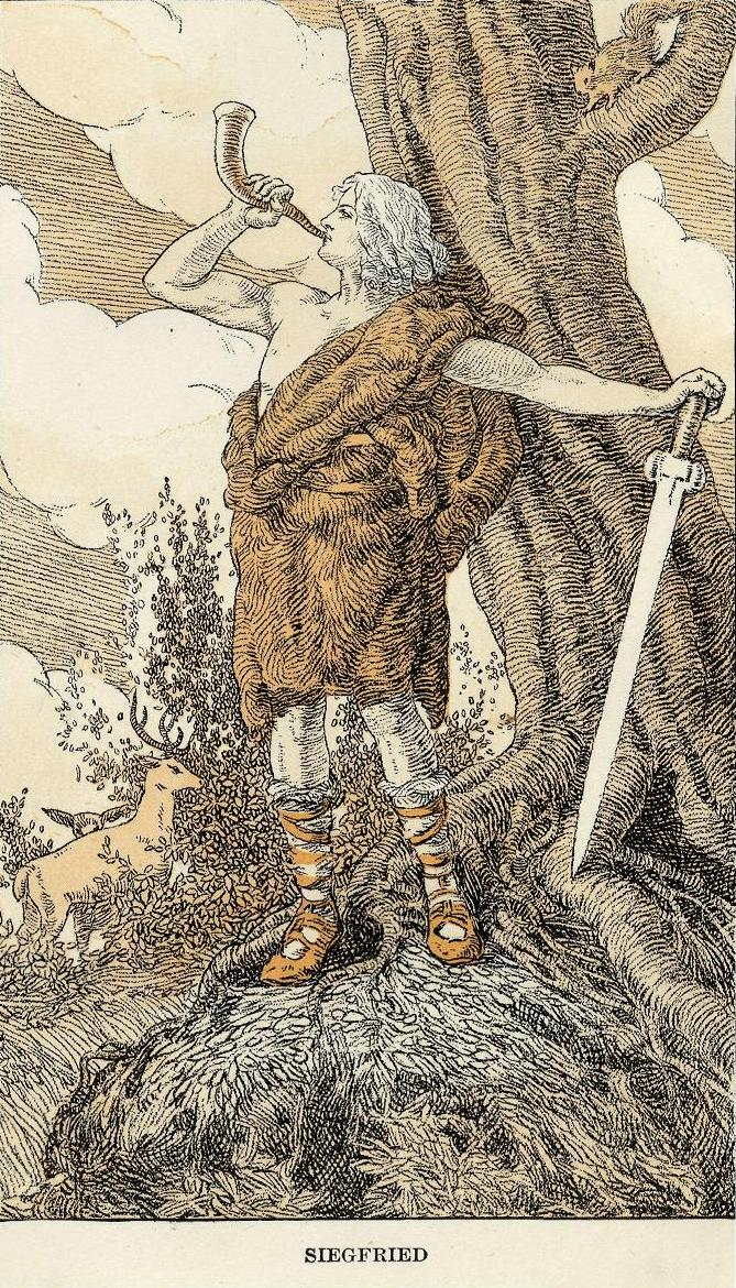 Siegfried from Nibelungenlied